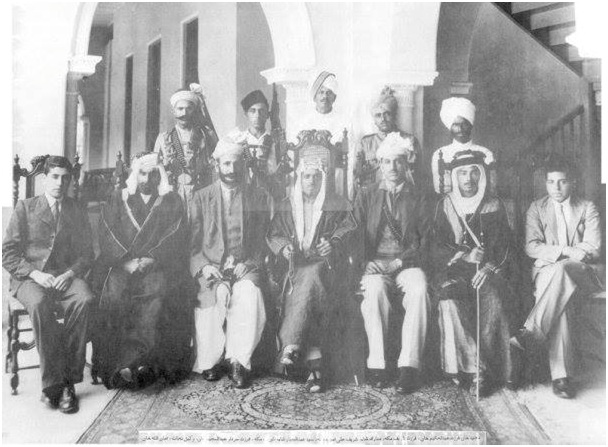 Syed Abdul Jabbar Shah the Prime Minister of Amb and former Ruler of Swat (seated third from left), Governor of Mecca (Saudi Arabia) (seated fourth from left) and Governor of Madinah (Saudi Arabia) (seated second from left), place Darband, 1923. (Courtesy by Nawabzada Salahudin Seed (Dec 31, 2014)